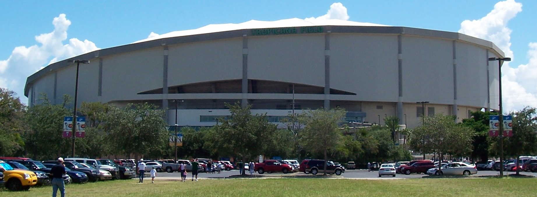 02:06, 18 September 2006 . . Wknight94 . . 1843×676 (108,401 bytes) (Picture taken by me before a game on August 20, 2006.)